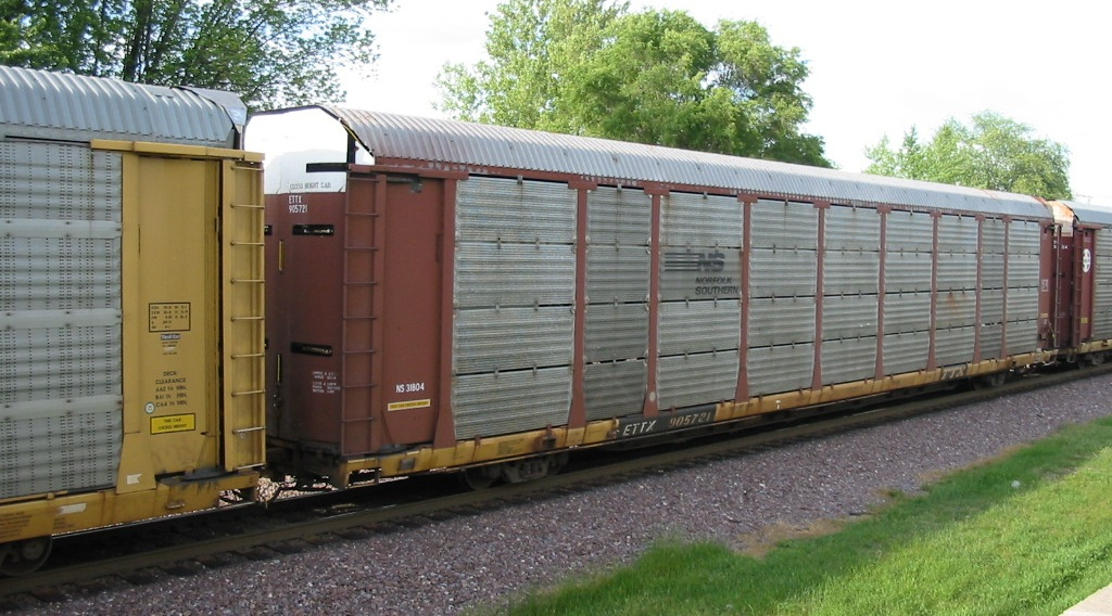 ETTX 905721, an autorack. The car platform is owned by TTX Corporation while the upper rack is owned by Norfolk Southern. The car is in a westbound train at Rochelle Railroad Park, Rochelle, Illinois, on May 29, 2005. Photo by Sean Lamb (User:Slambo)